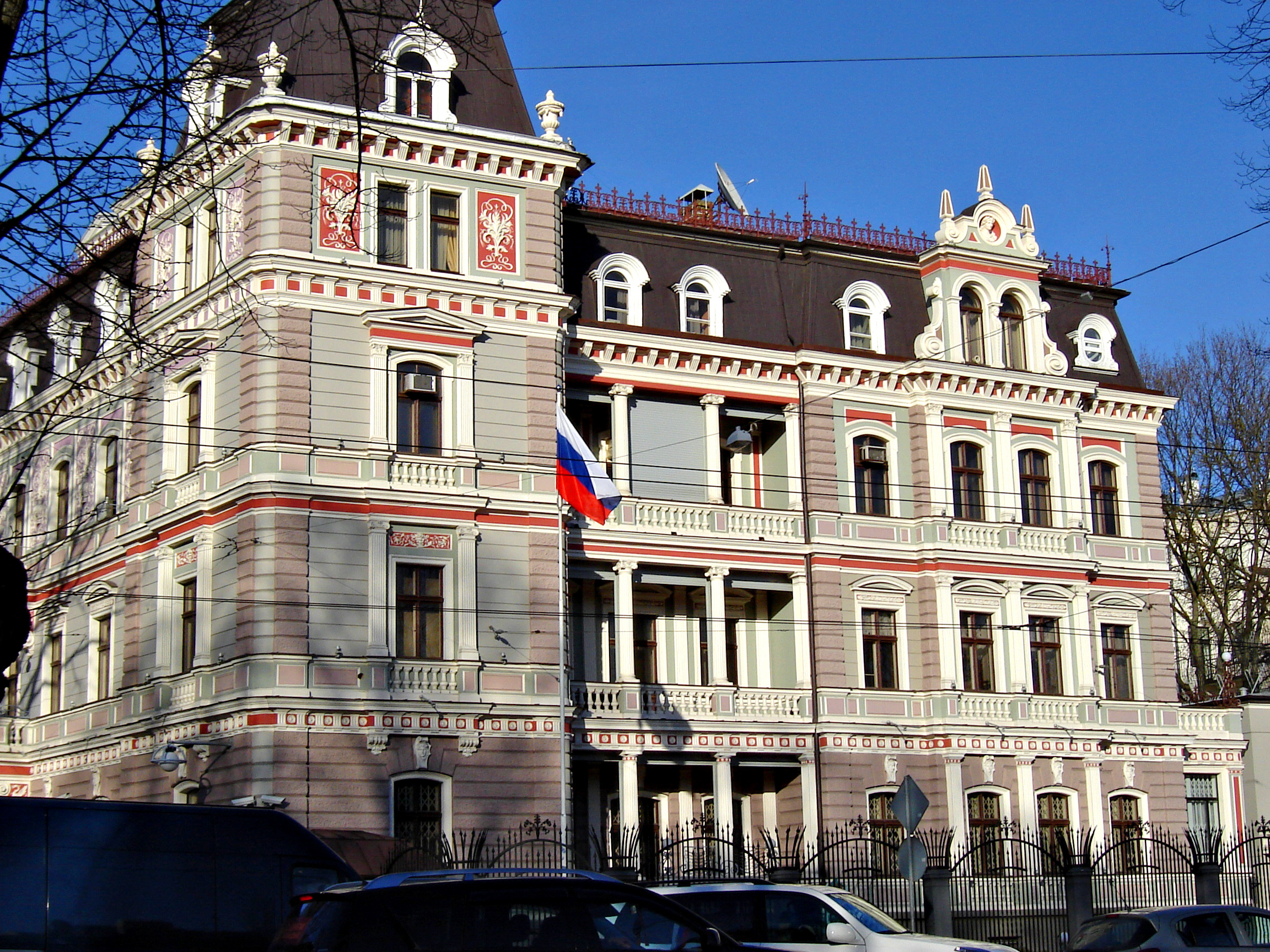 Embassy of the Russian Federation in Riga